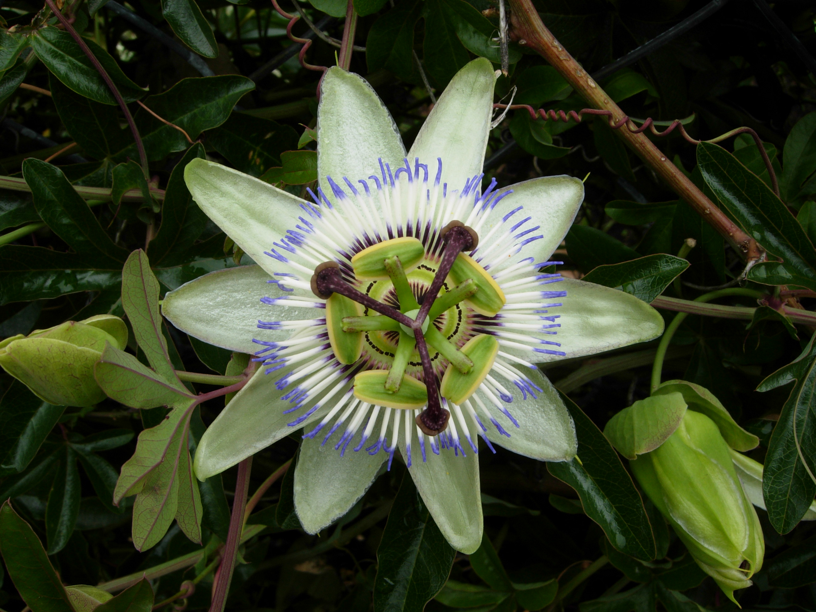 The flower of the passionfruit.